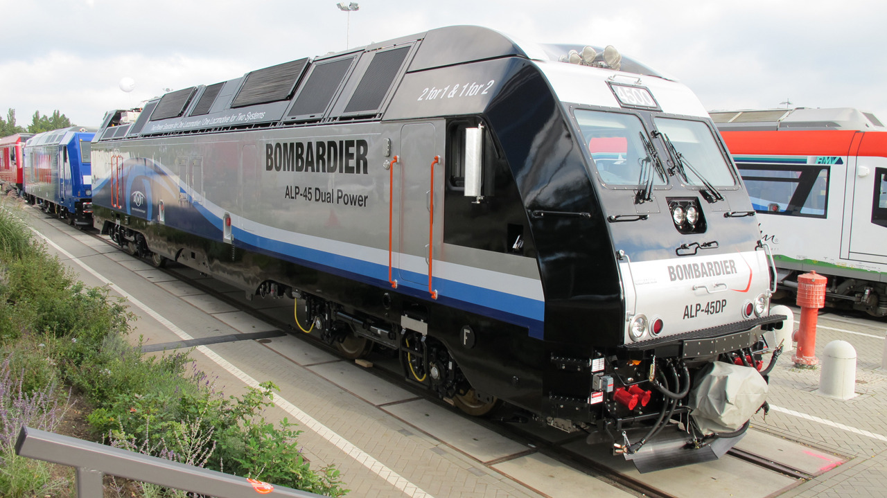 First shots of ALP-45DP at the Innotrans convention in Berlin.